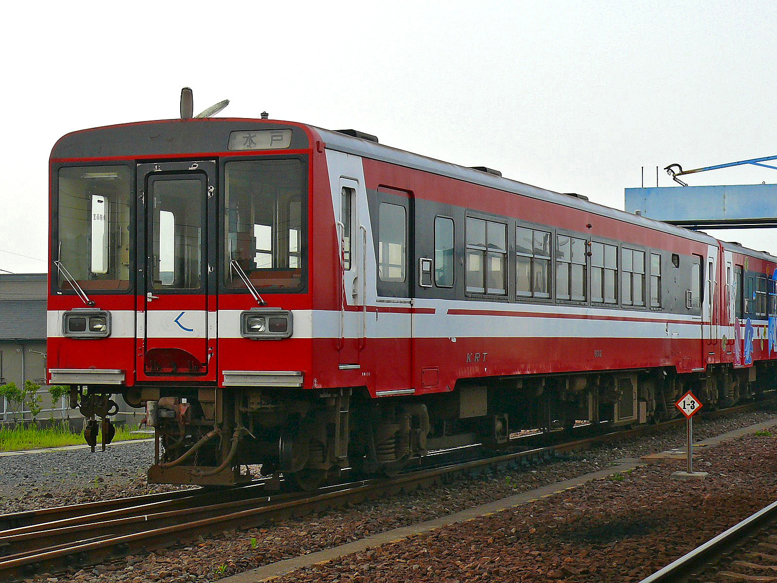 Kashima Rinkai Railway 6000 series DMU 6003 at Oarai Station